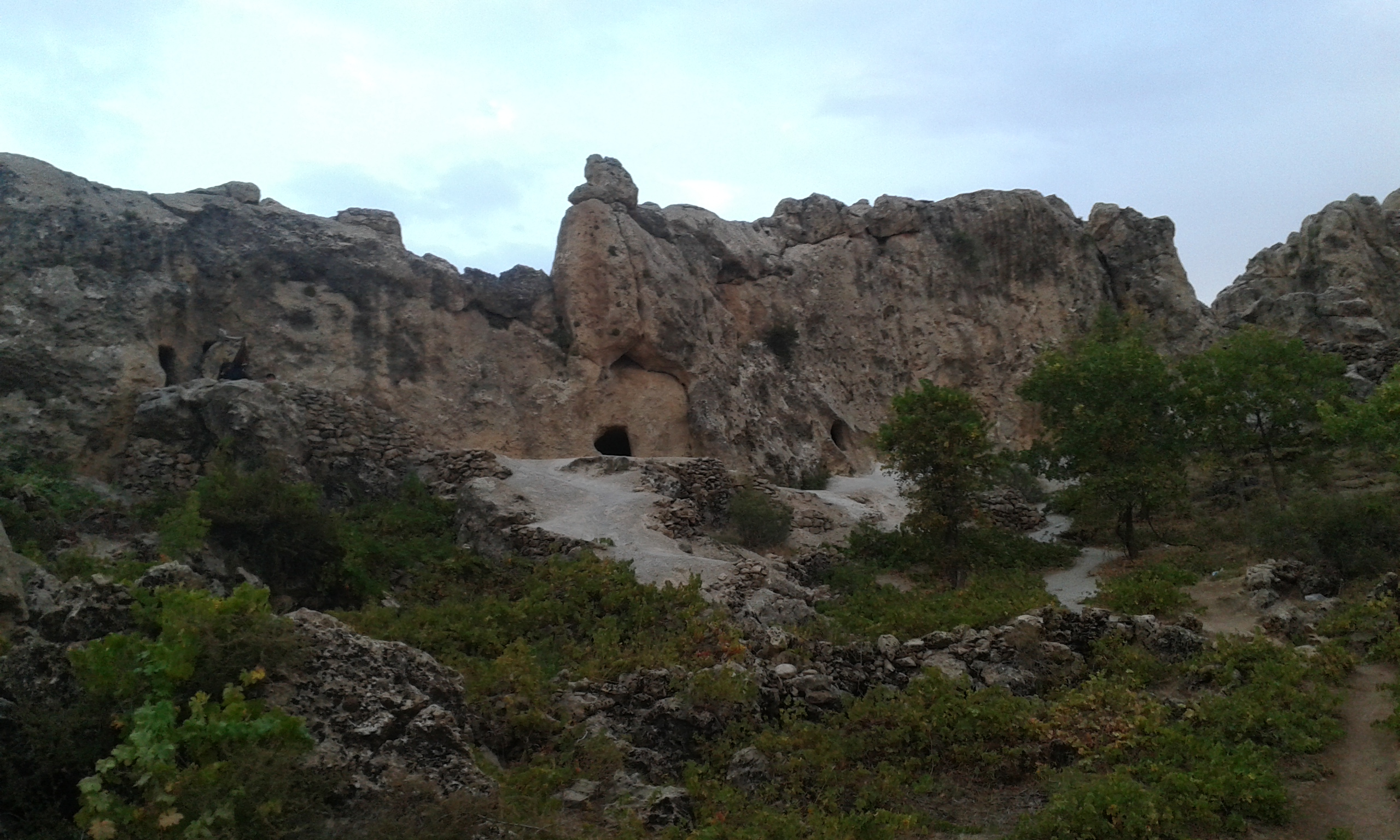 Manmade cave Khalo Hussein Kuhkan